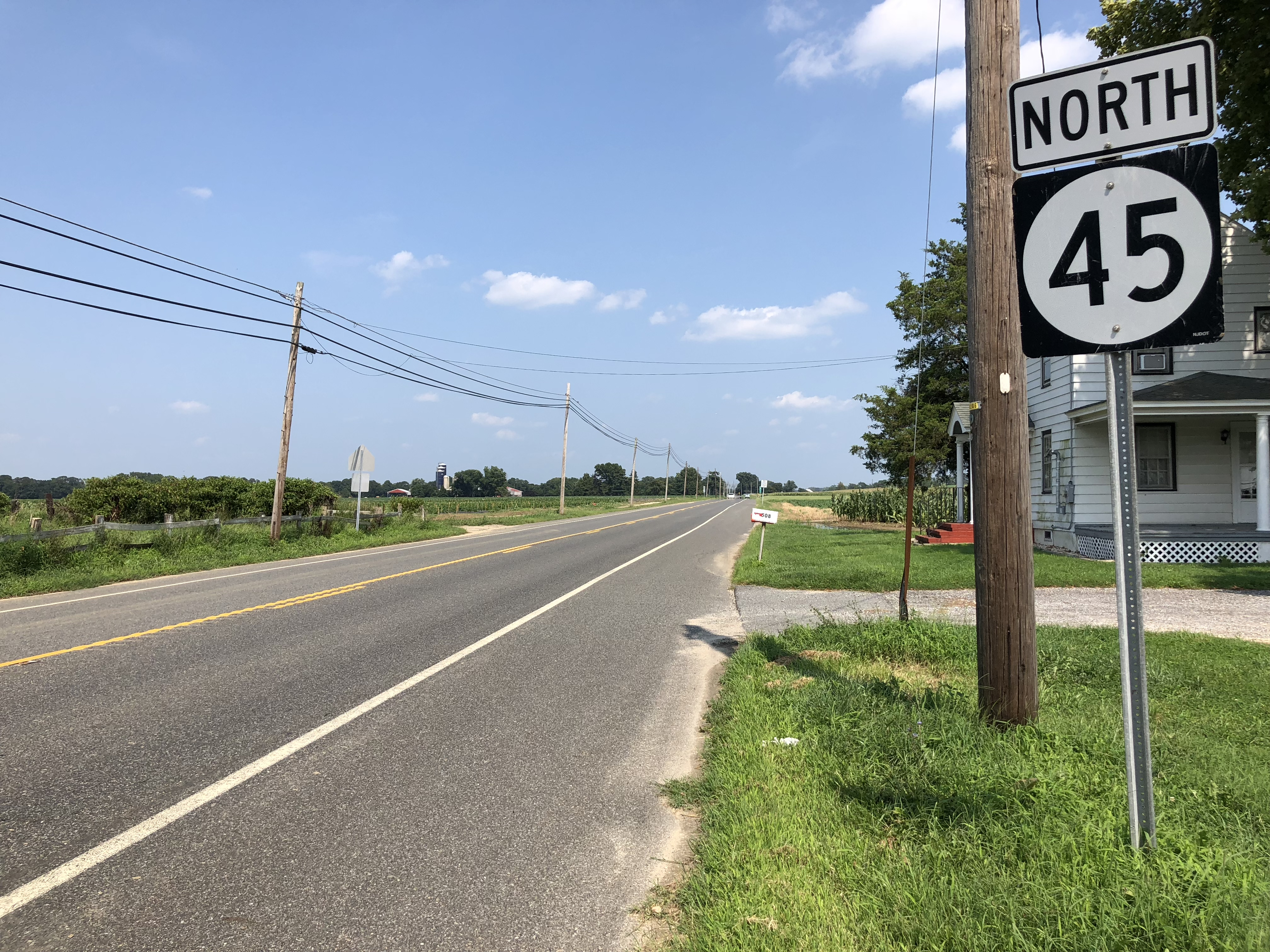 View north along New Jersey State Route 45 (Salem-Woodstown Road) at Salem County Route 540 (Welchville-Alloway Road) in Mannington Township, Salem County, New Jersey